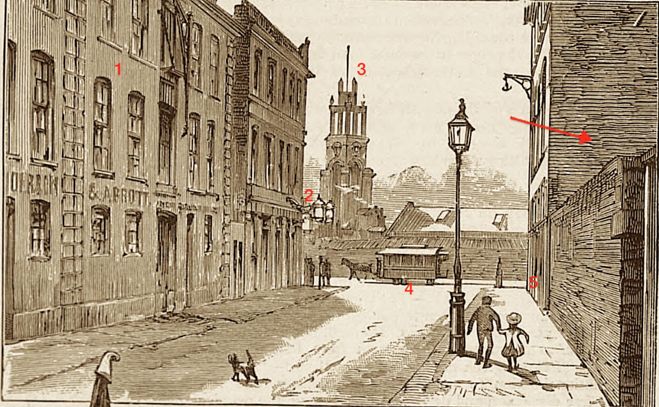 A cartoon in The Graphic illustrates Dod Street as it was in 1885. The image is an inset that depicts an uncharacteristically quiet street on a Sunday morning: the usual crowds are attending a socialist demonstration in Trafalgar Square.